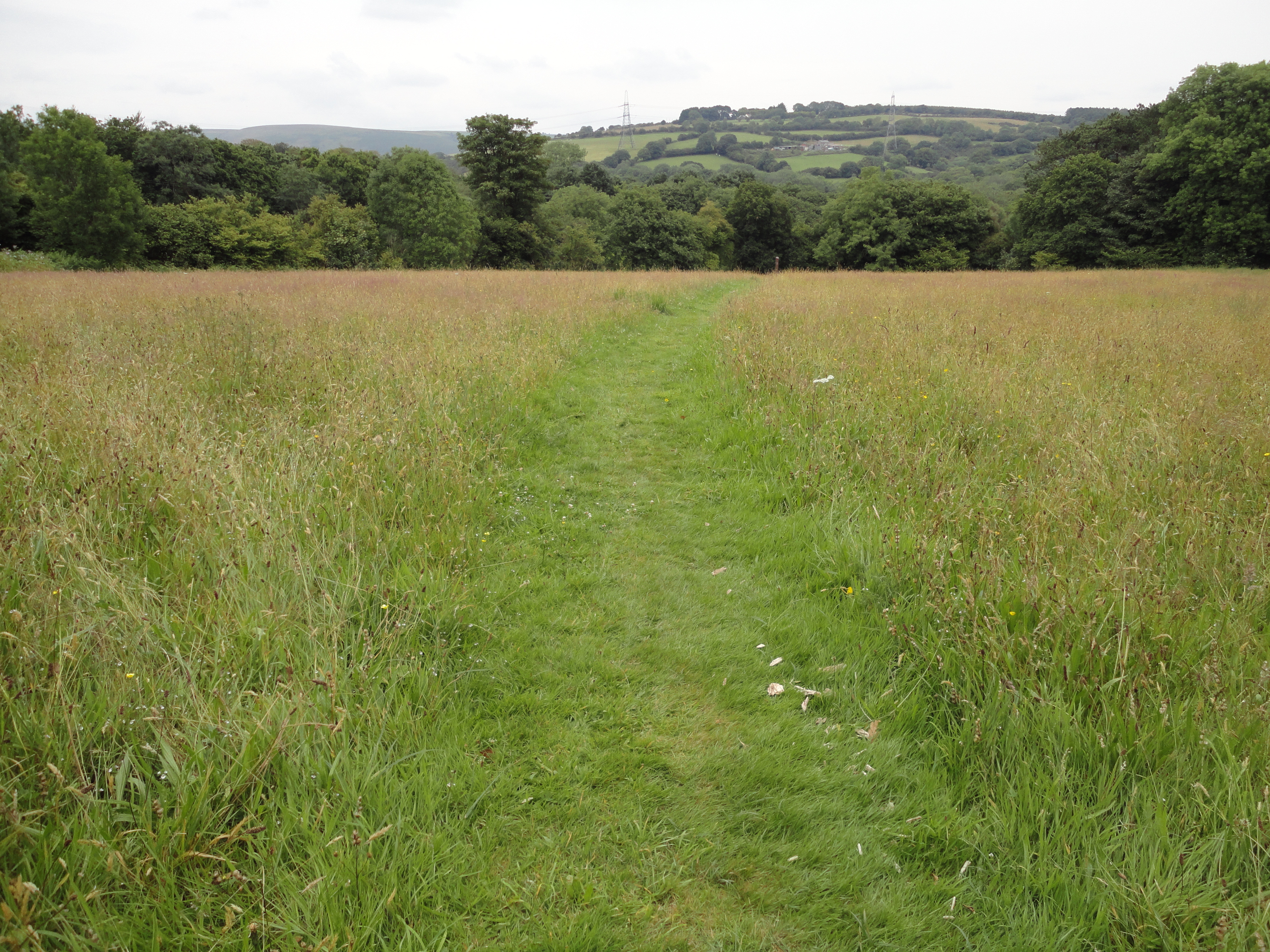 Bryngarw Country Park, Meadow